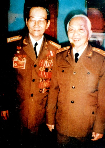 GS.TS. Nguyễn Thiện Thành